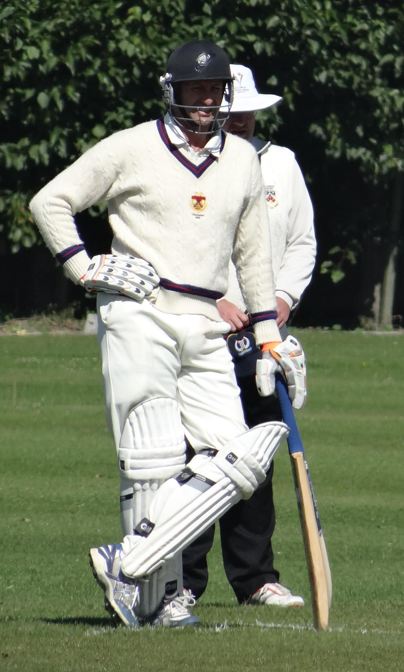 Chris Harris playing for the Sydenham Cricket Club in Christchurch New Zealand